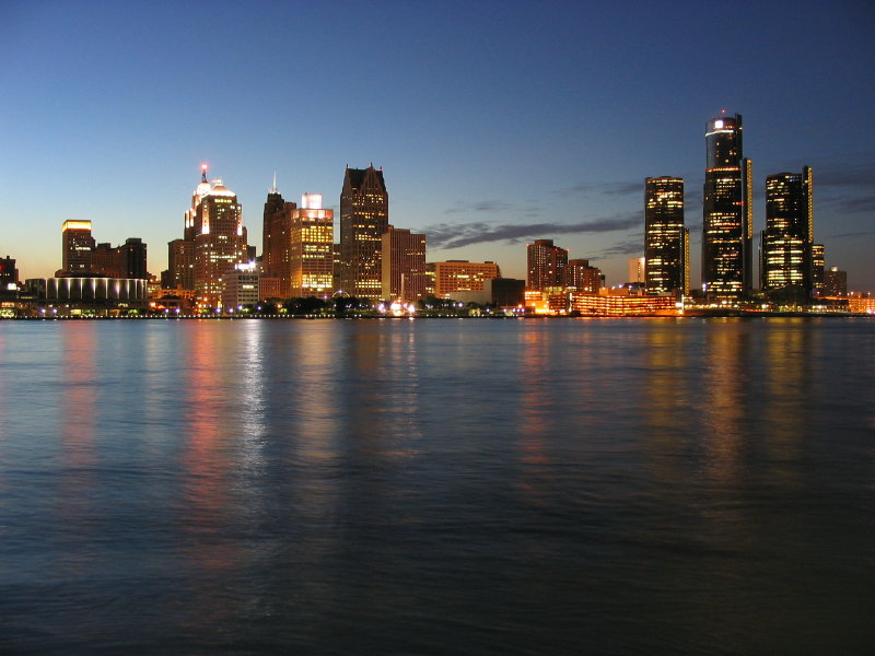 Detroit skyline and the Detroit International Riverfront — as seen from Windsor, Ontario.